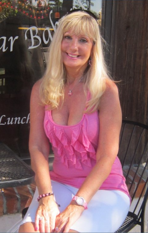 Photograph of Susie Silvey taken in 2012